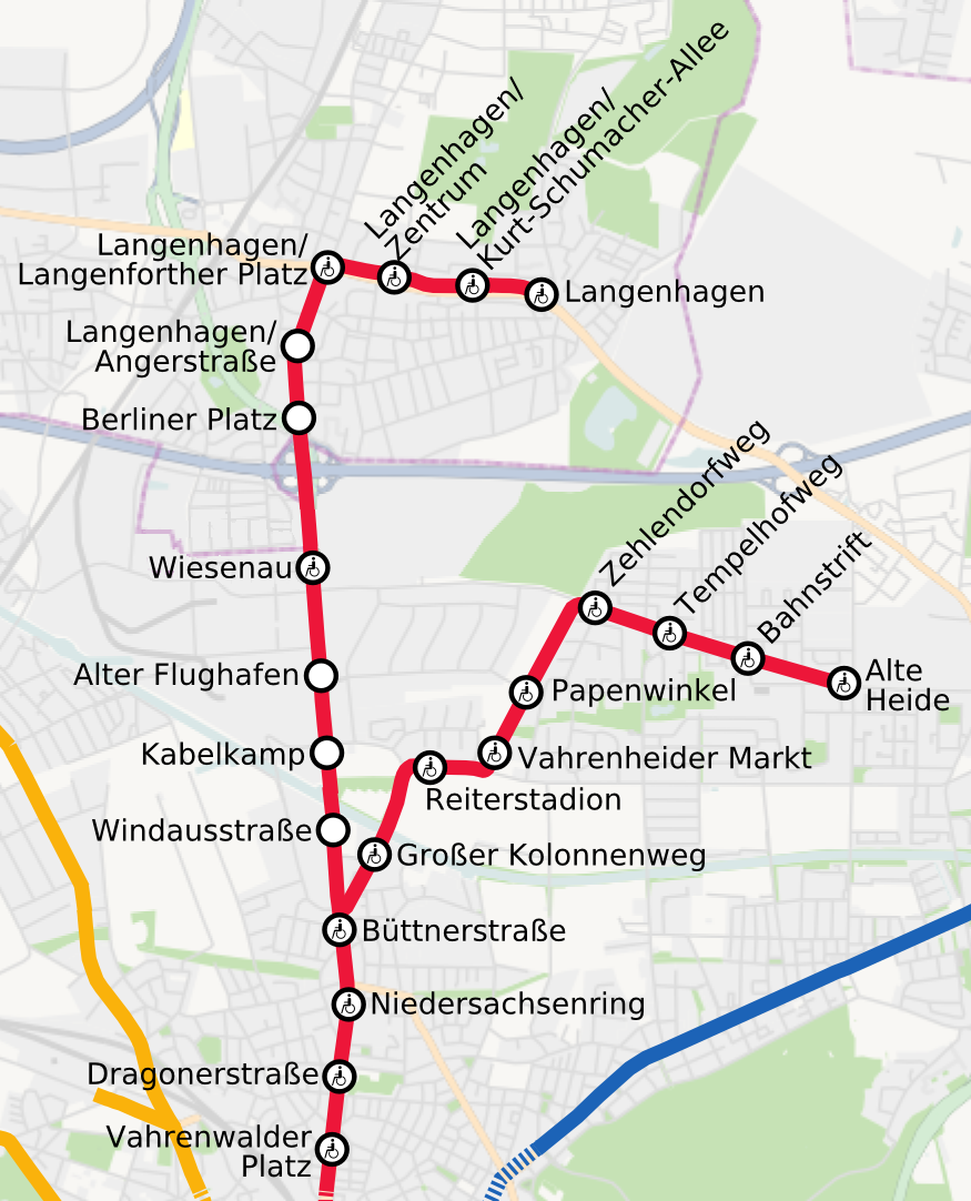 Light rail of Hannover, Germany. B North